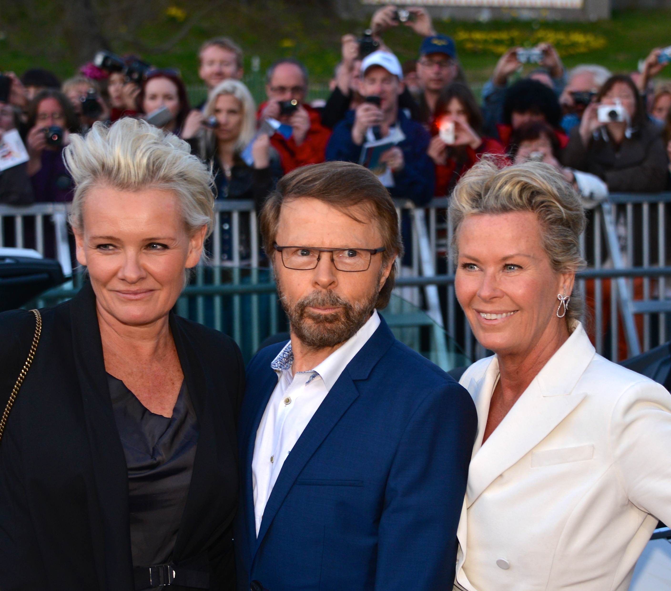 Eva Dahlgren, Björn Ulveus and Efva Attling during the opening of ABBA: The Museum May 6, 2013.